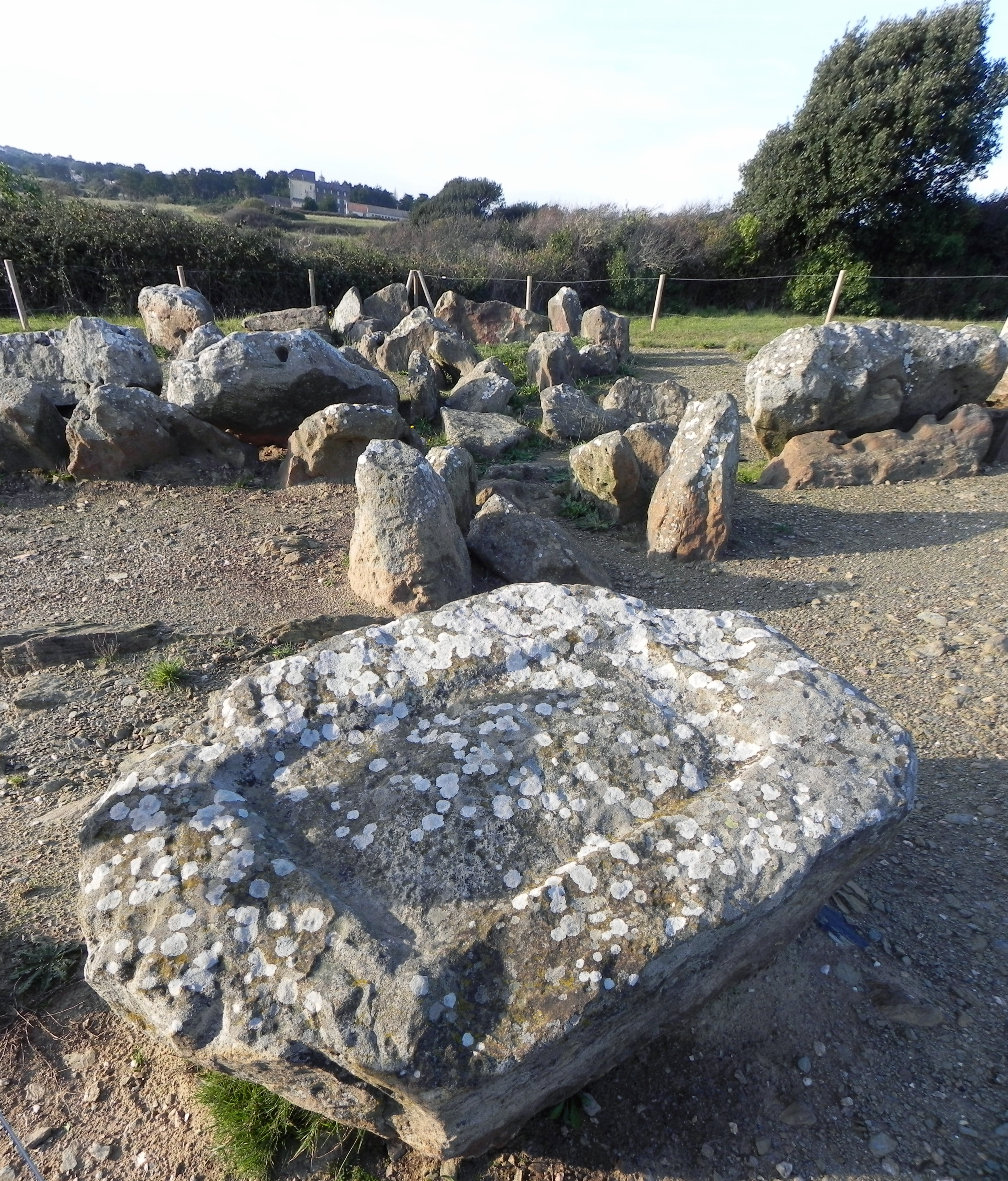 Dolmen du Pré d'Air, Pornic, Loire-Atlantique, France.